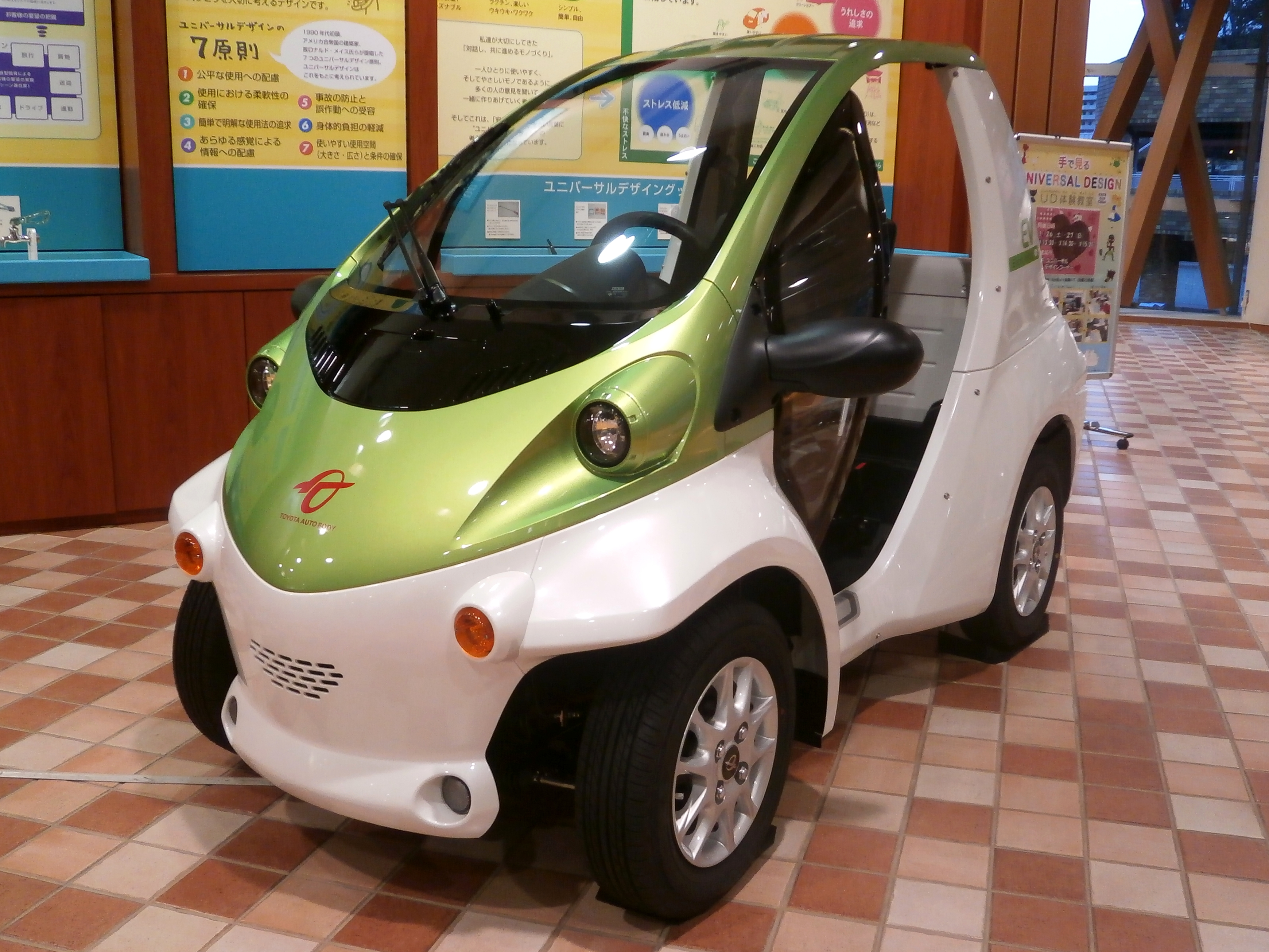 Toyota Auto Body COMS at AMLUX TOKYO.